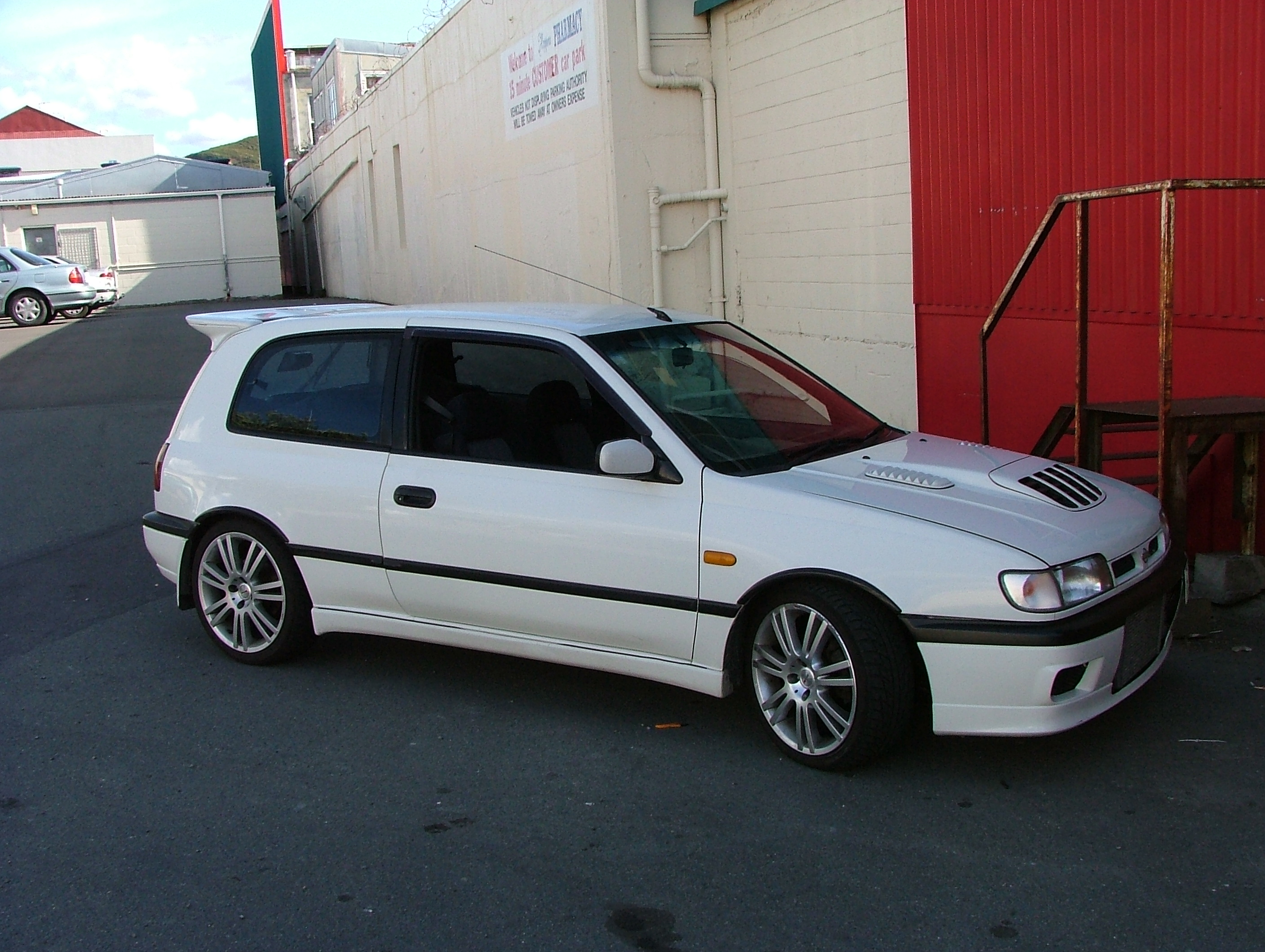 1994 GTiR RA. This particular model is fairly modified, was running a microtec ECU, garret T3/4 turbo, front mounted intercooler. and a few other goodies. car was sold to someone who could not handle the 258Kw that this car was putting out.